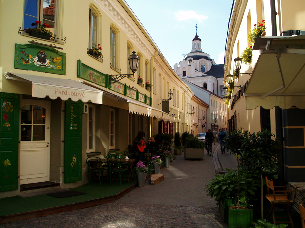 Old town Vilnius city centre